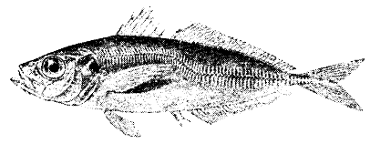 Atlantic horse mackerel